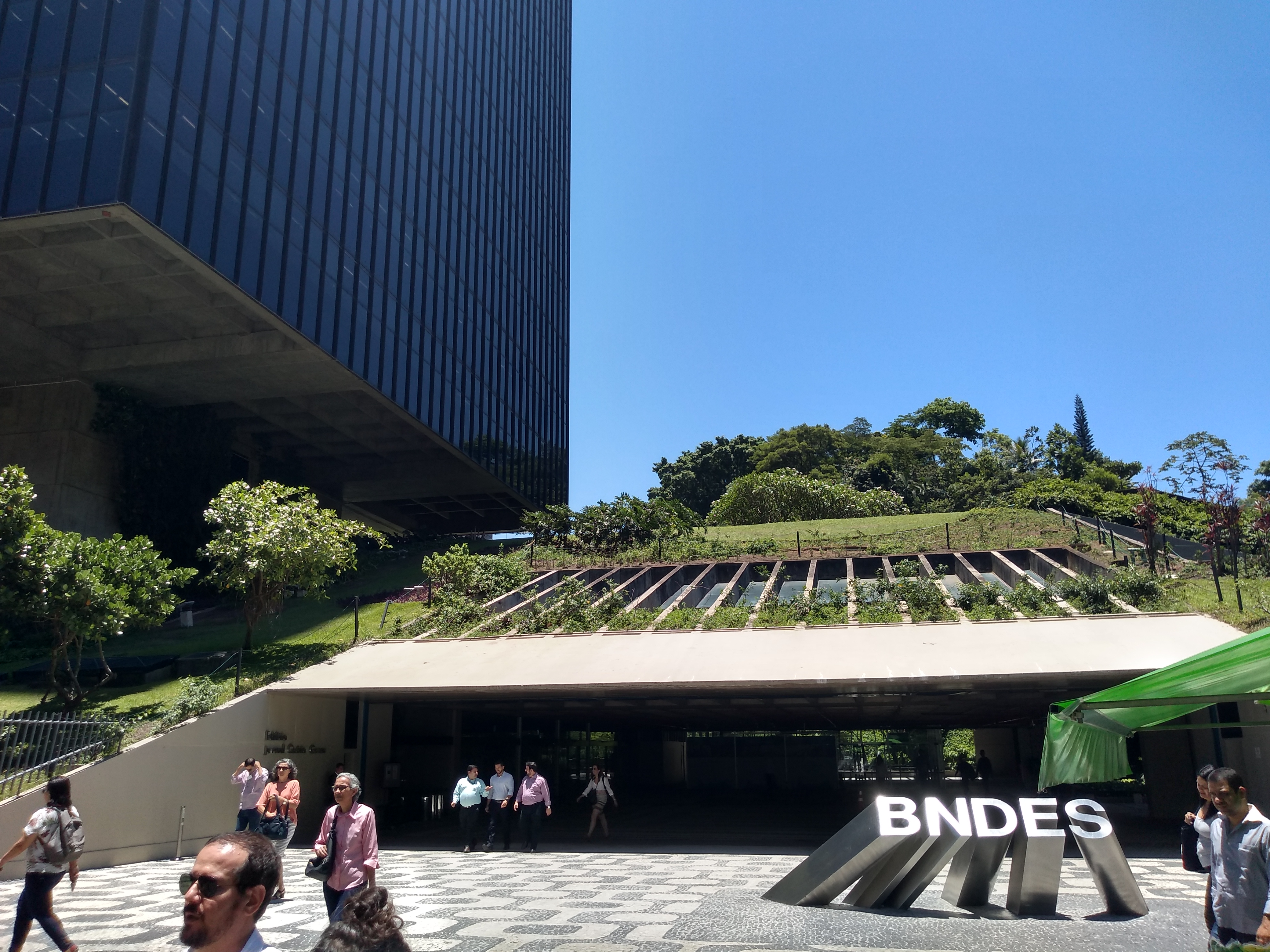 Headquarters of Brazilian Development Bank (BNDES) in Rio de Janeiro.